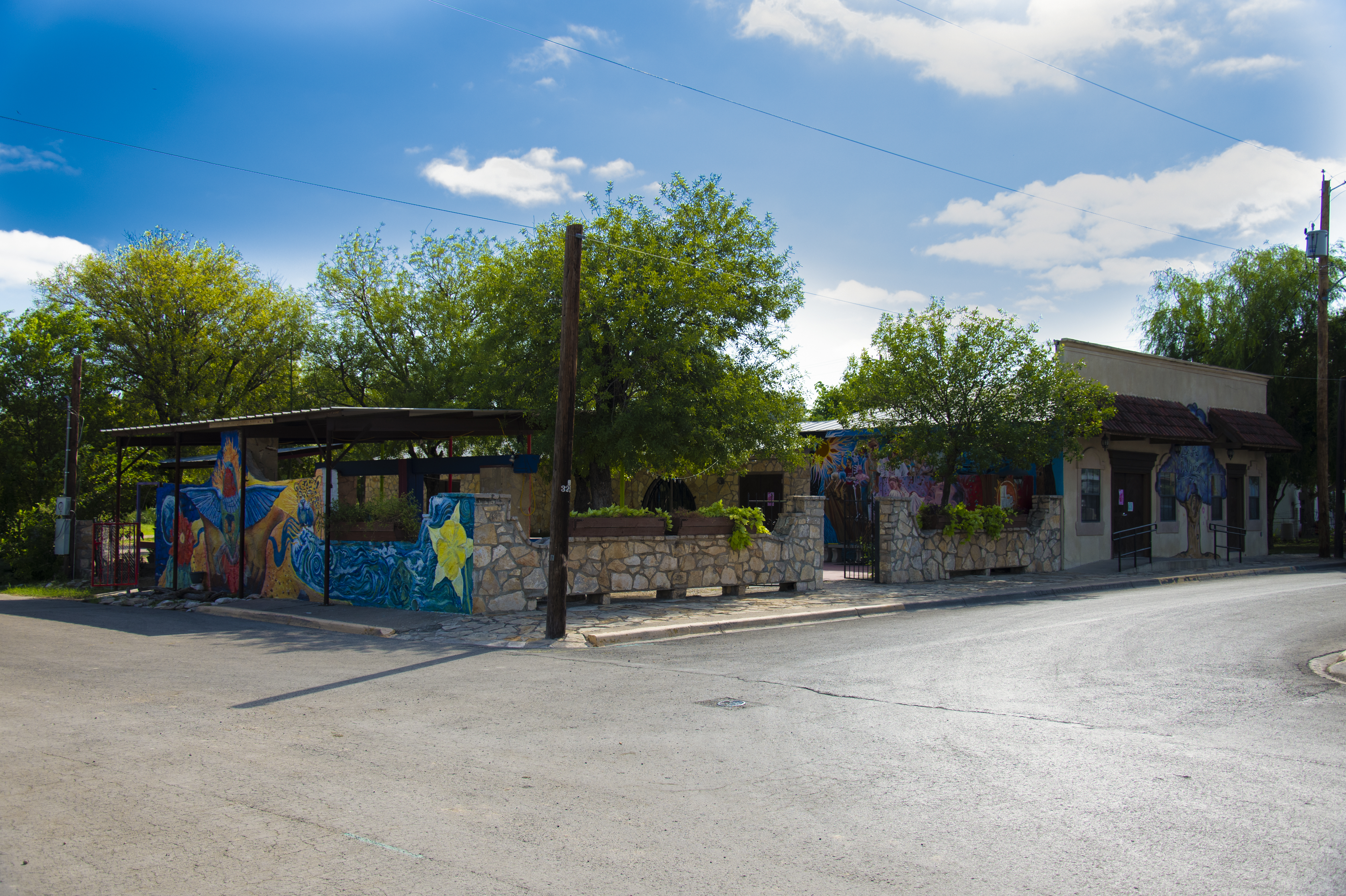 Casa De La Cultura